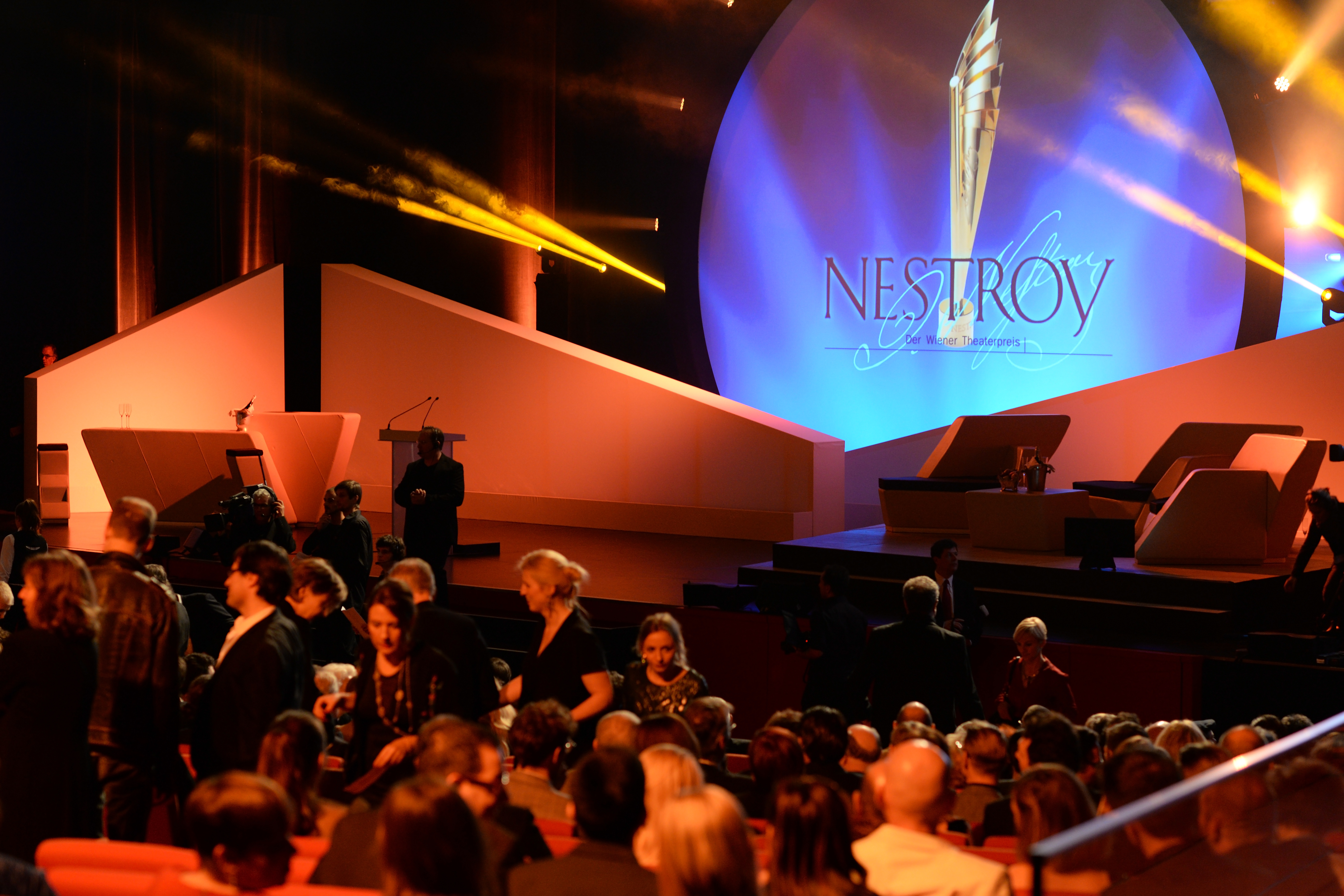 Nestroy Theatre Awards 2014 at Wiener Stadthalle (Vienna, Austria).